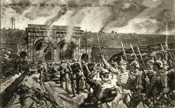 Lille (France - Nord department) — Attack of the Douai Gate by the 181st Regiment - E.R&C.A.-G. Good quality commentaries, see "Other Version"